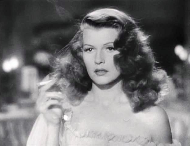 Screenshot of Rita Hayworth as Gilda in the trailer for the film Gilda